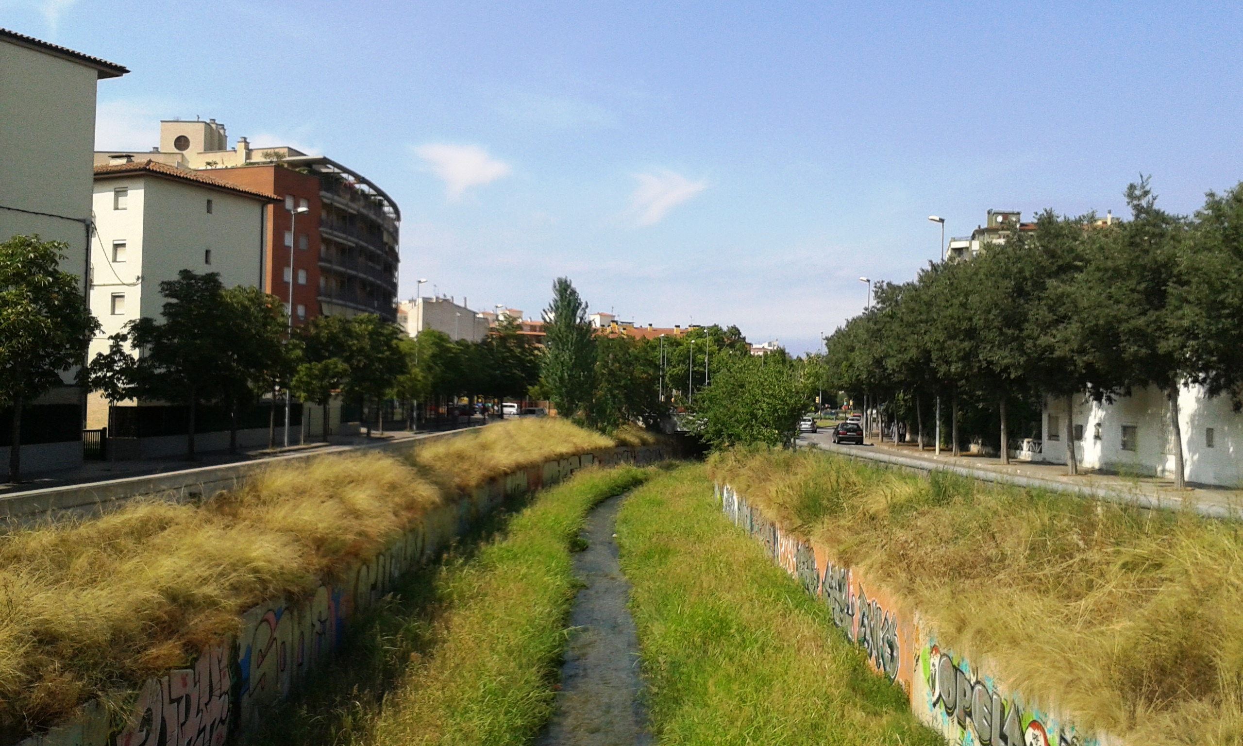 The river Guell as it passes through the neighborhoods of Santa Eugenia, Can Gibert del Pla and Sant Narcis in Girona